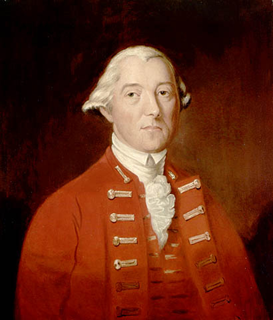 Guy Carleton (1724-1808), governor of British North America